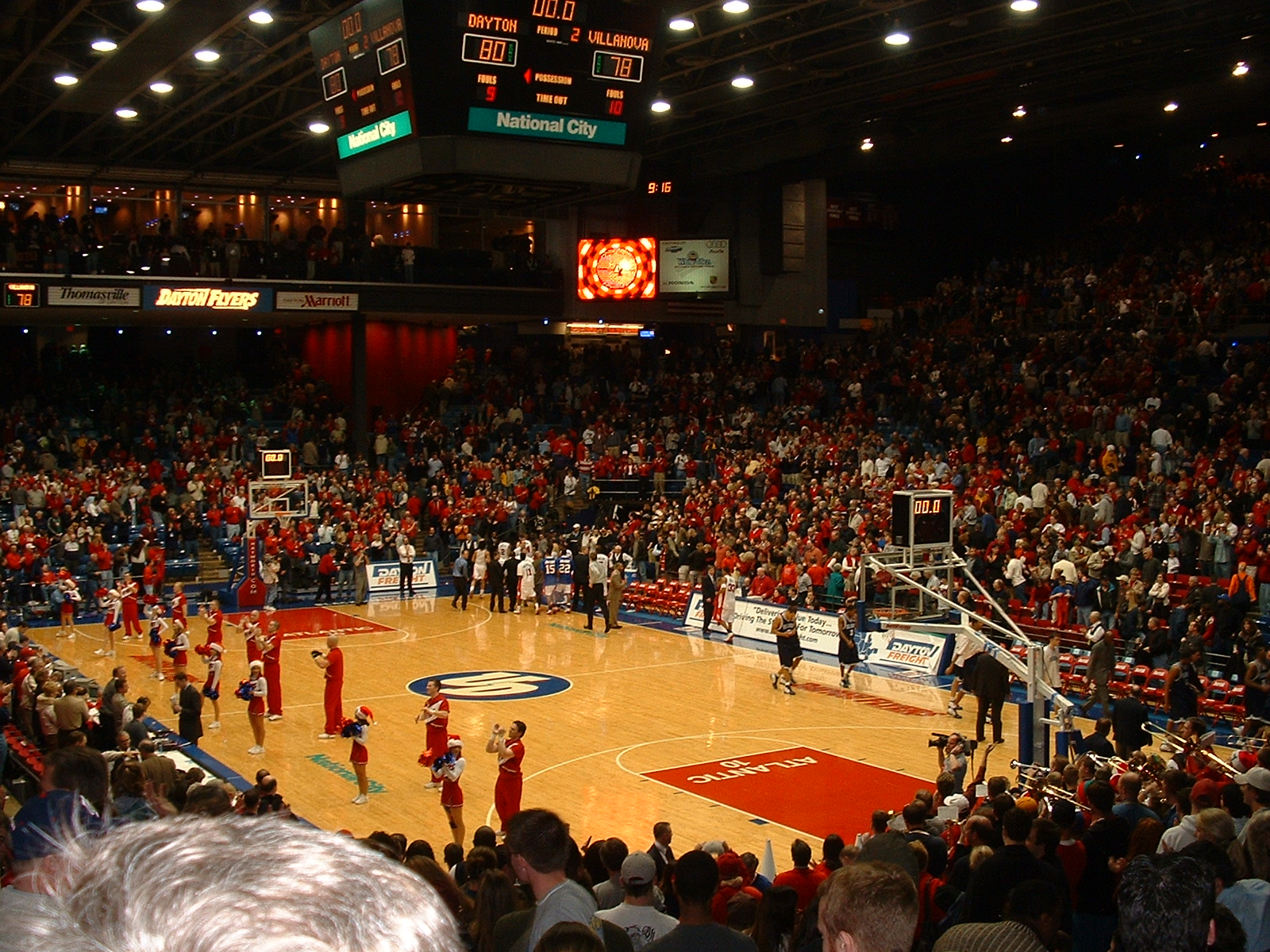 Personal photograph taken by viperstick